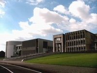 Keio University Shonan Fujisawa Campus